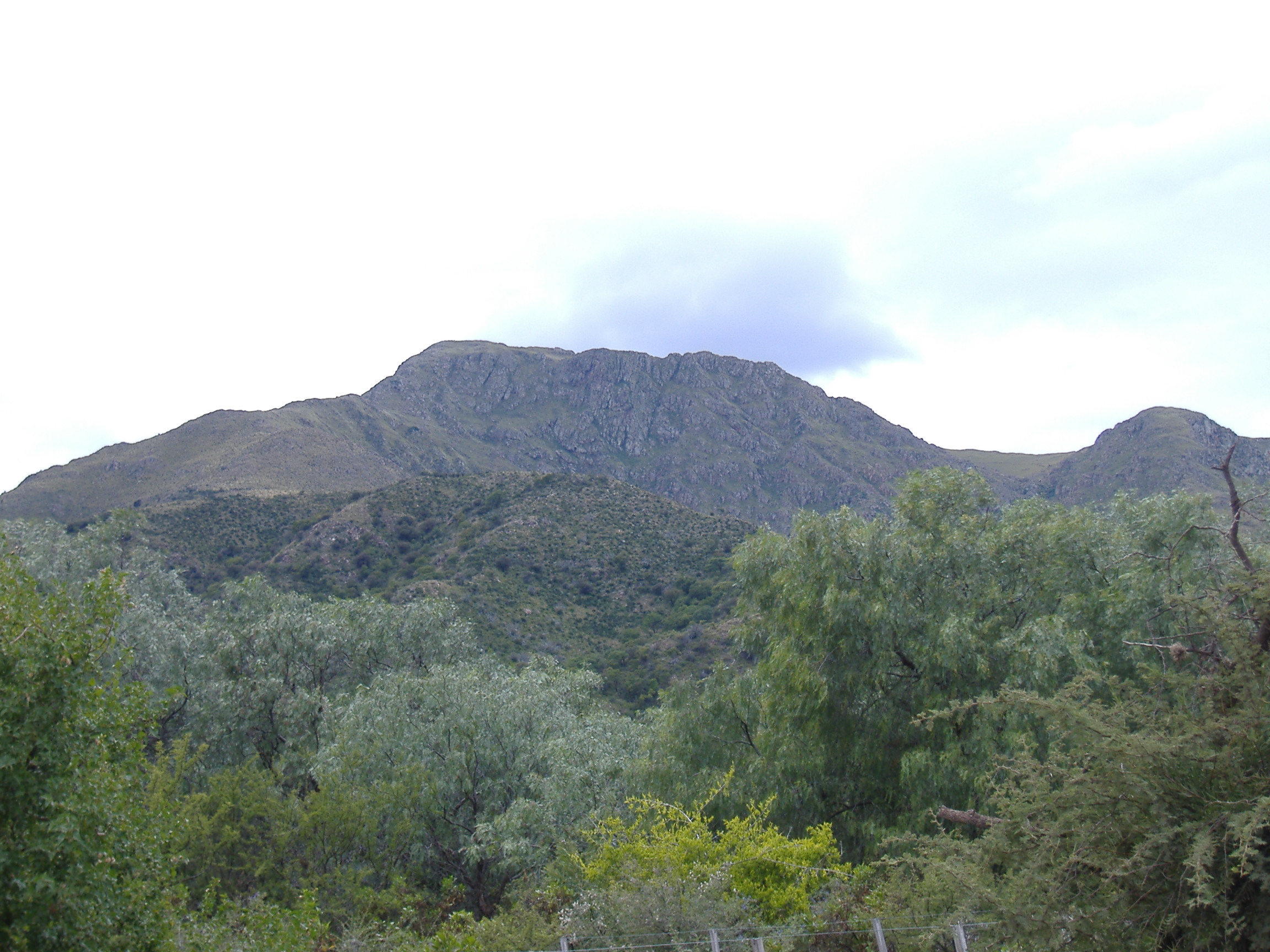 Cerro Uritorco, a small mountain near Capilla del Monte, Córdoba, Argentina, famed as a site of alleged UFO sightings.